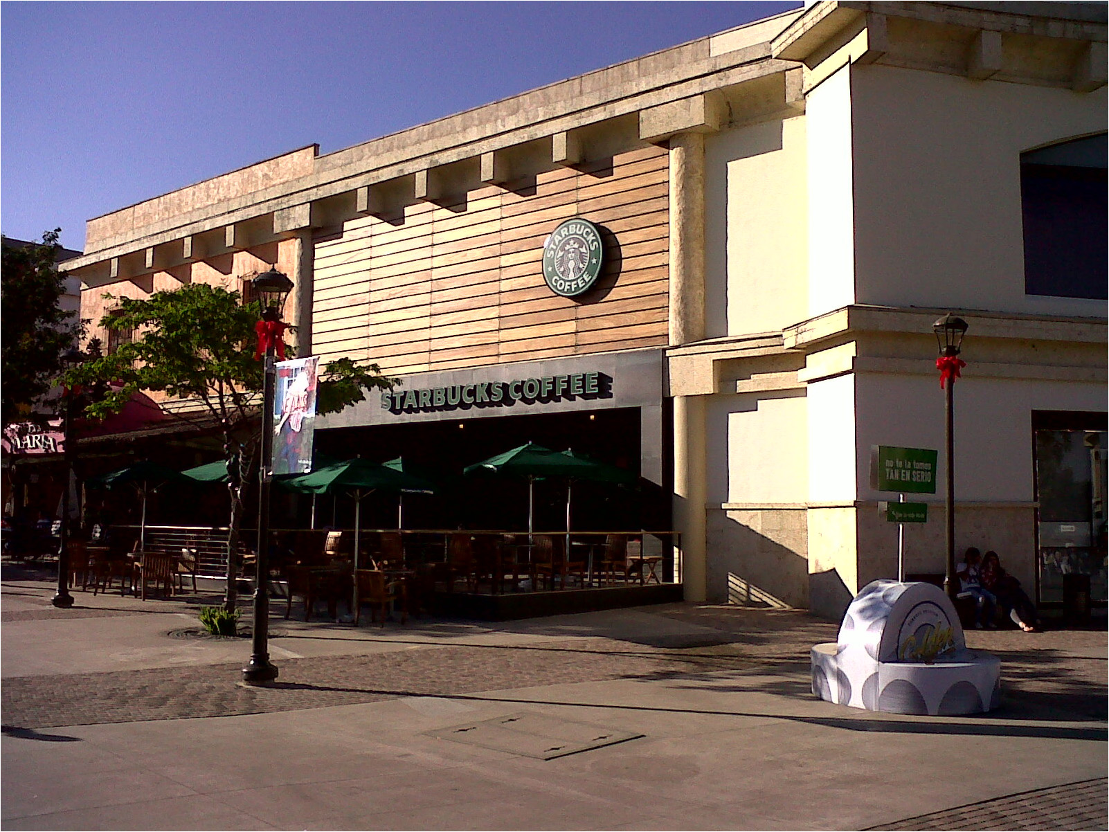 Starbucks in El Salvador, located in mall "La Gran Via" in San Salvador.